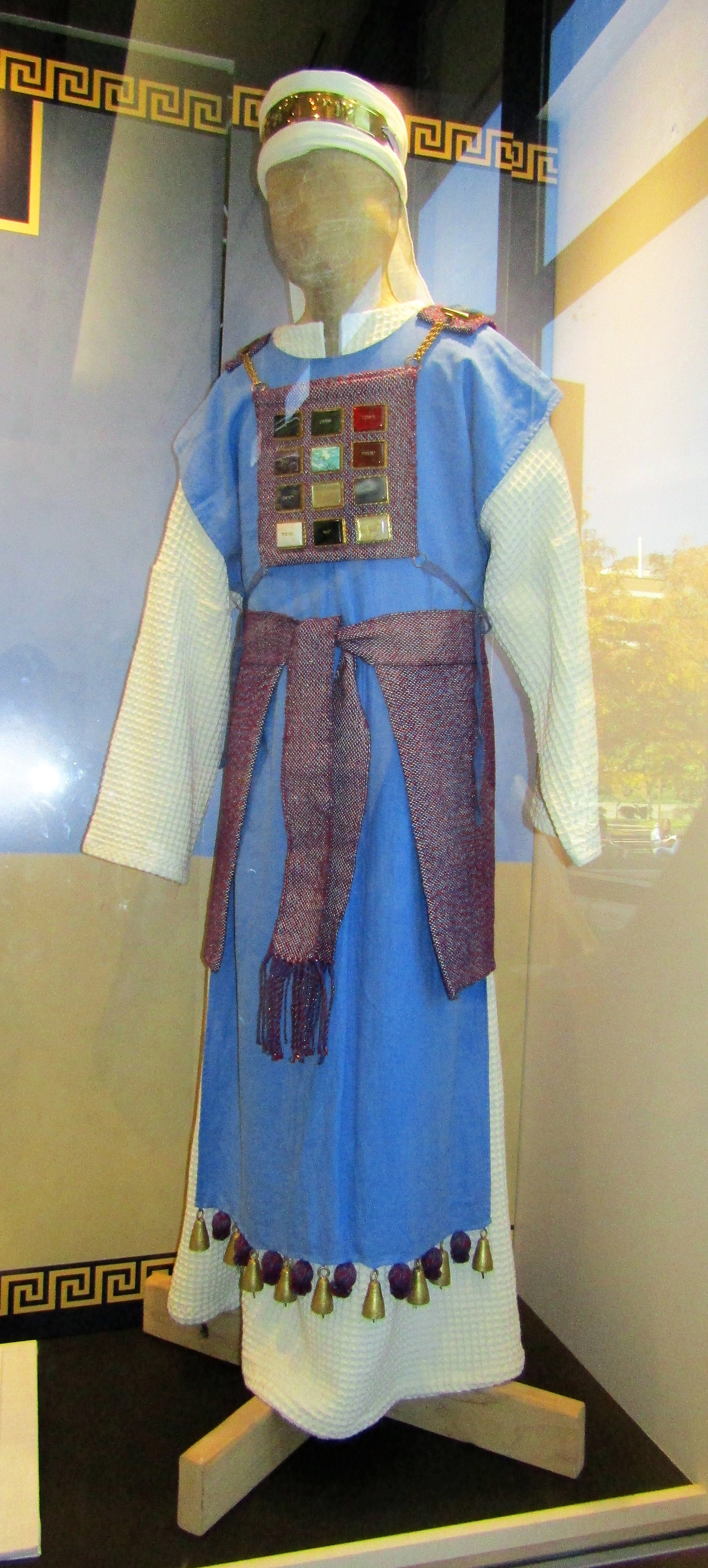 Clothing for High Priests, part of the display for the Tabernacle replica at BYU.